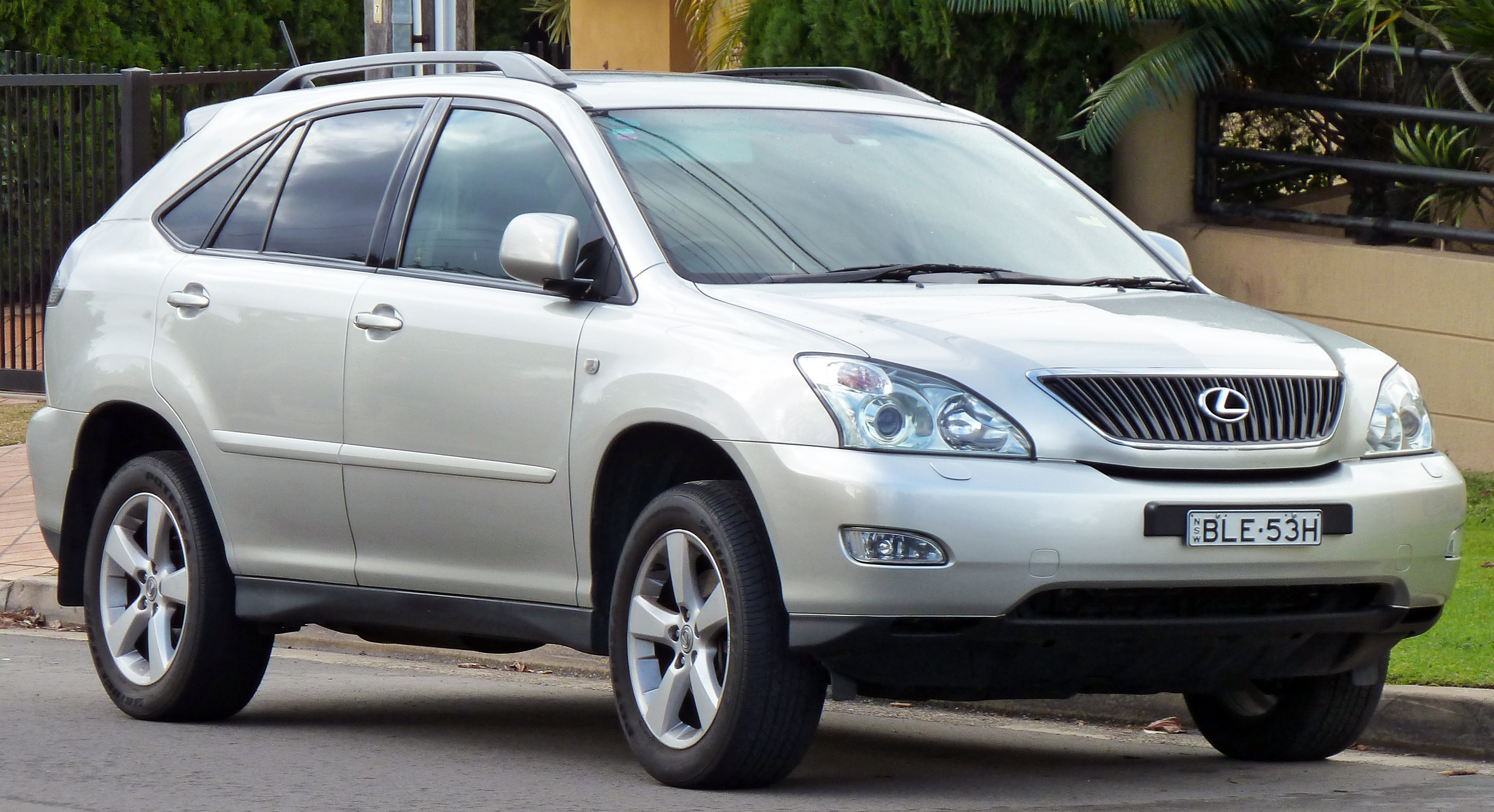 2005 Lexus RX 330 (MCU38R) Sports Luxury wagon. Photographed in Kangaroo Point, New South Wales, Australia.